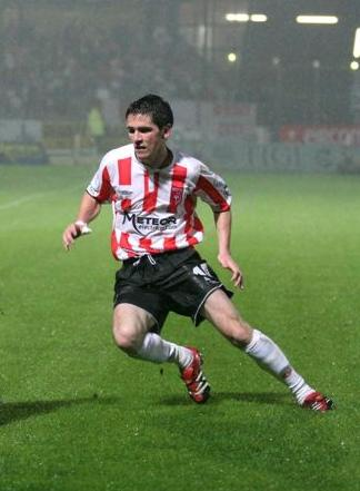 Gareth McGlynn. Cropped personal photo.